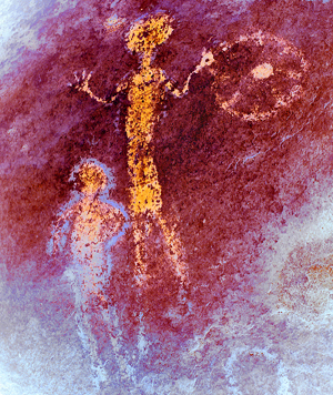 Chumash Sun-Child-Adult, color-enhanced photo by Millennium Twain, free for worldwide distribution.